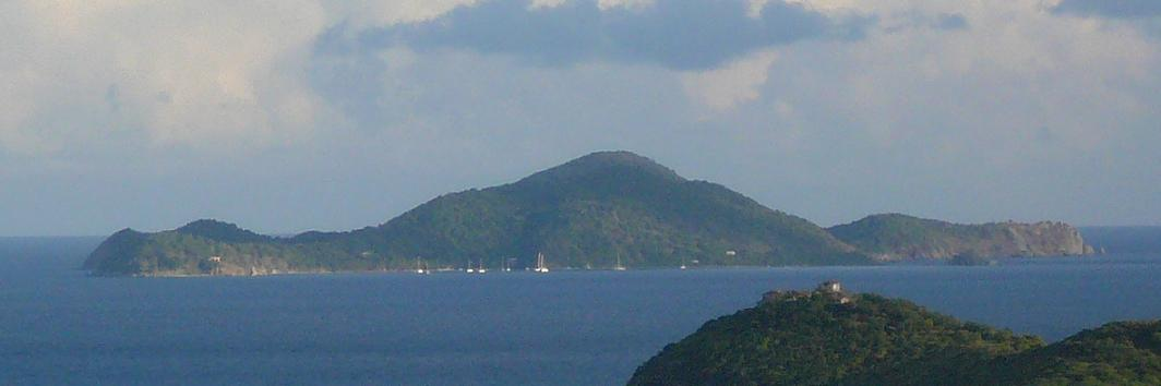 Cooper Island, British Virgin Islands, view from Long Look on Tortola. Photograph taken by User:Legis on 22 October 2007.